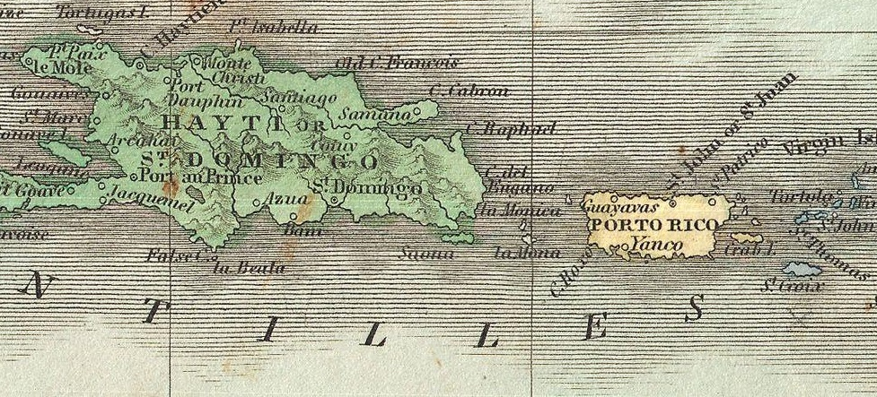 Cofresi's domain from Wikipedia's Commons